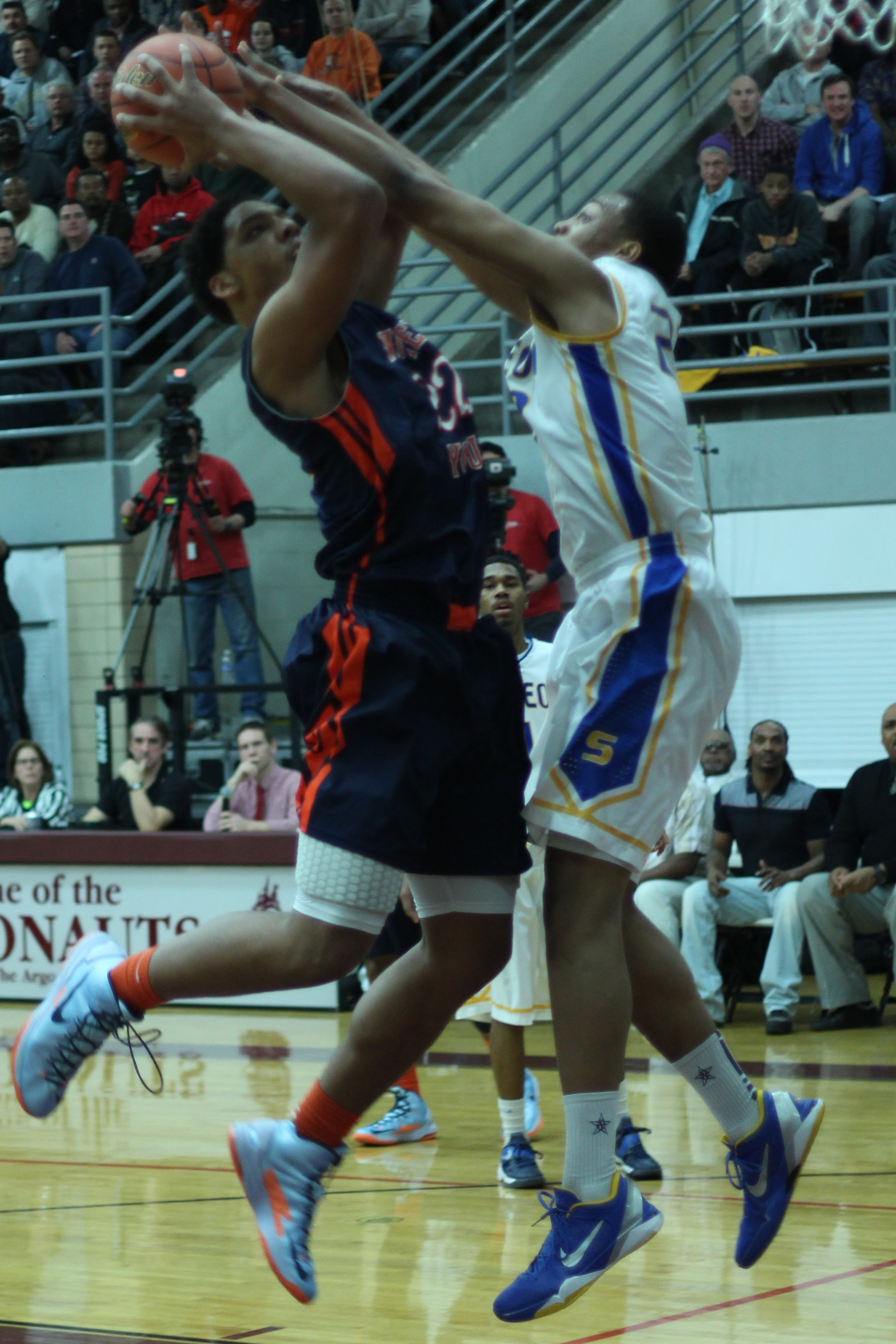 Jabari Parker defends Jahlil Okafor in the 2013 Illinois High School Association playoffs.